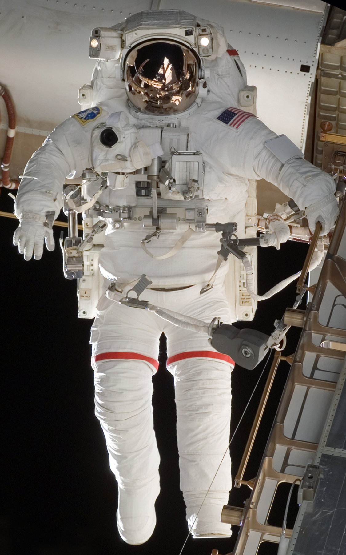 Astronauts Rick Mastracchio and Canadian Space Agency's Dave Williams (out of frame), both STS-118 mission specialists, participate in the mission's first planned session of extravehicular activity (EVA), as construction continues on the International Space Station. During the 6-hour, 17-minute spacewalk Mastracchio and Williams attached the Starboard 5 (S5) segment of the station's truss, retracted the forward heat-rejecting radiator from the station's Port 6 (P6) truss, and performed several get-ahead tasks.